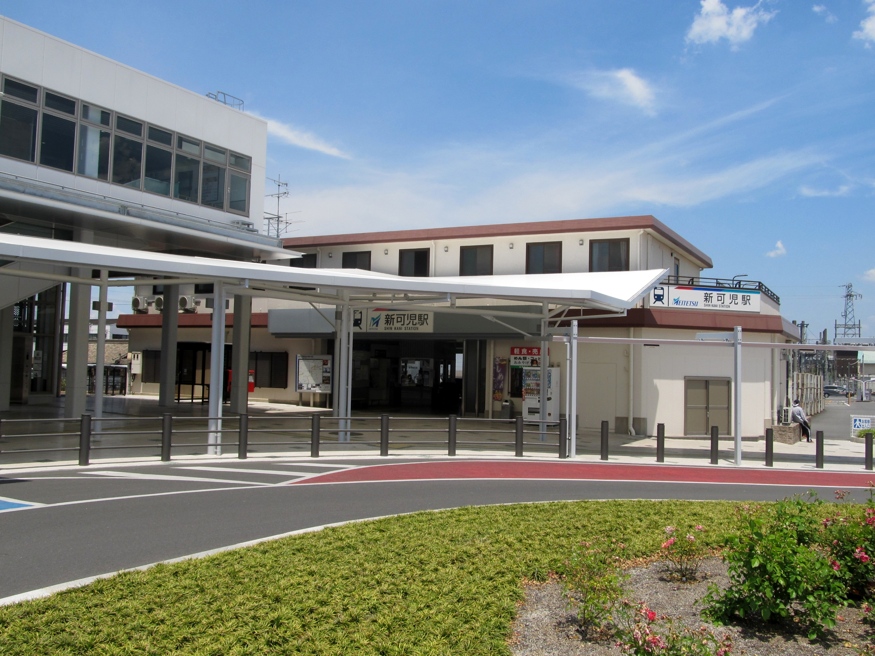 Nagoya Railroad Hiromi Line Shin Kani Station Building